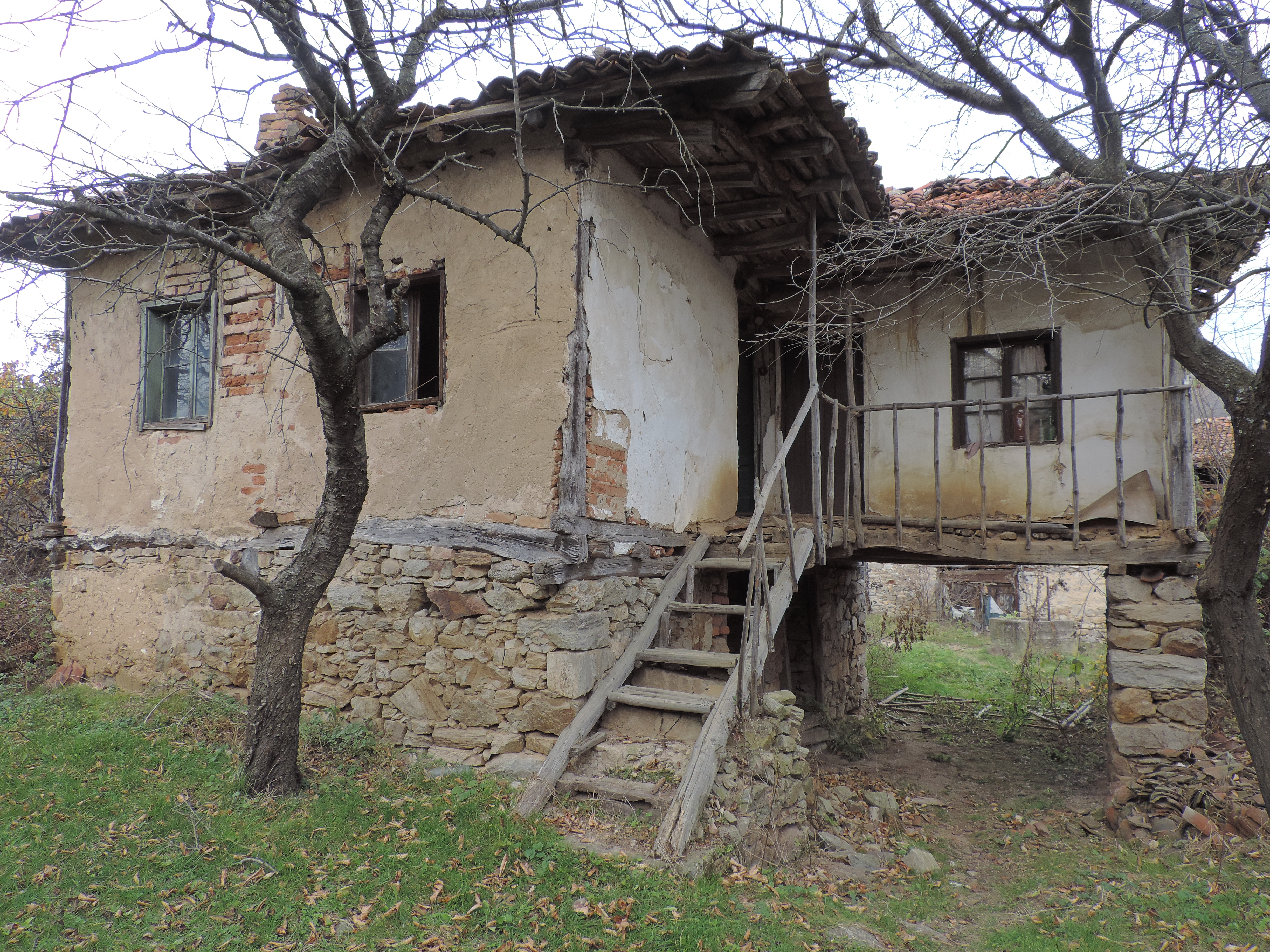 Golak village, Bulgaria